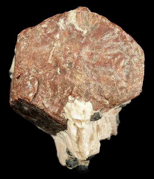 Willemite, Calcite, Franklinite Locality: Franklin, Franklin Mining District, Sussex County, New Jersey, USA (Locality at ) Size: 5.3 x 4.4 x 3.8 cm. A huge, sharp, classic willemite crystal aesthetically perched on a sliver of calcite with embedded franklinite crystals from Franklin. The moderately lustrous, rust-brown crystal has textbook, hexagonal form. Amazing green fluorescence on the willemite and orange for the calcite.